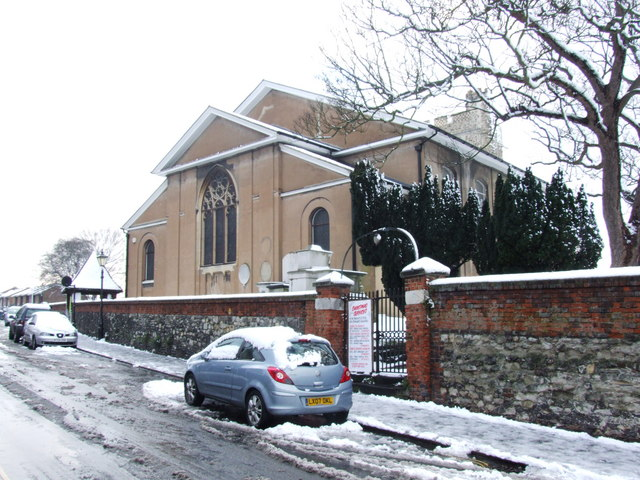 Parish church of St Margaret of Antioch, St Margaret's Street, Rochester, Kent, seen from the northeast